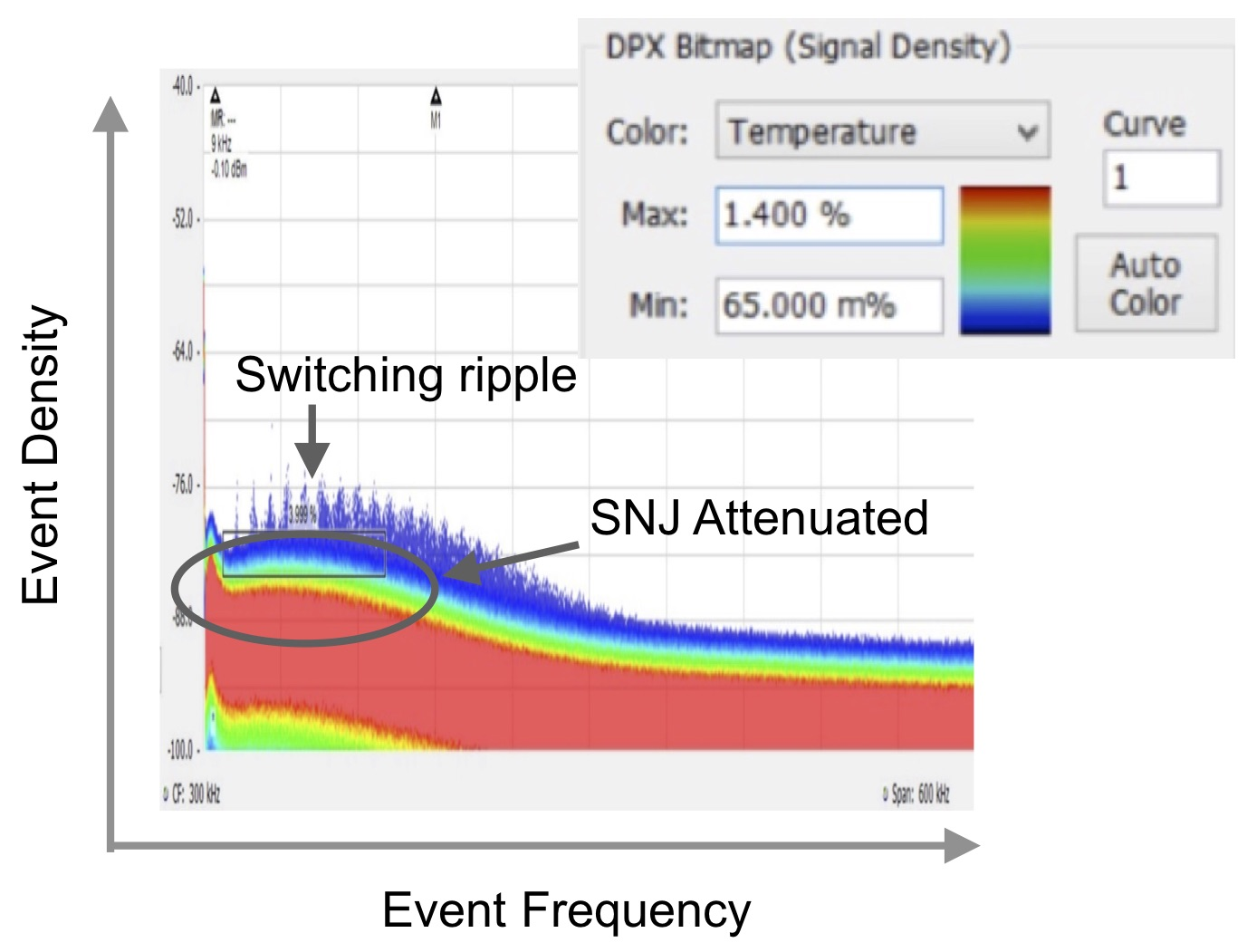 DPX plot of the supply bias waveform after SNJ conditioning. The reading of the event density has been reduced by 50% to about 4%